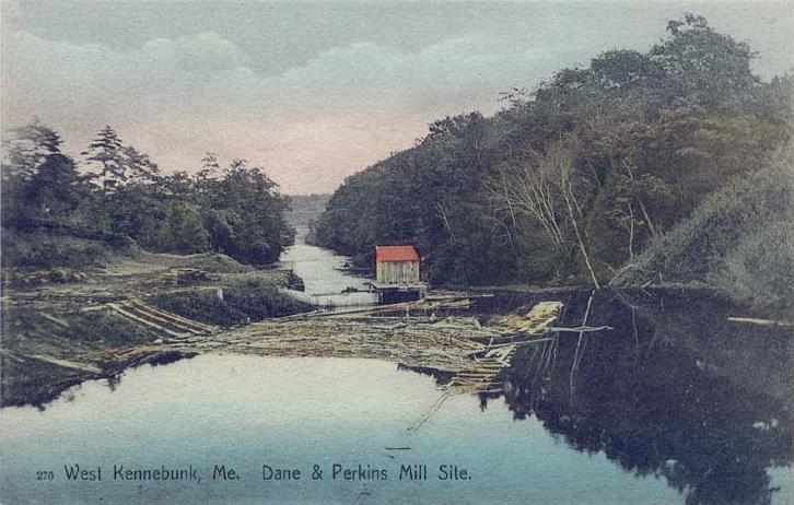 The Dane & Perkins Mill site, West Kennebunk, Maine. The sawmill on the Mousam River burned August 25, 1904. It is now site of Dane Perkins Dam, used for hydroelectric power and recreation purposes.